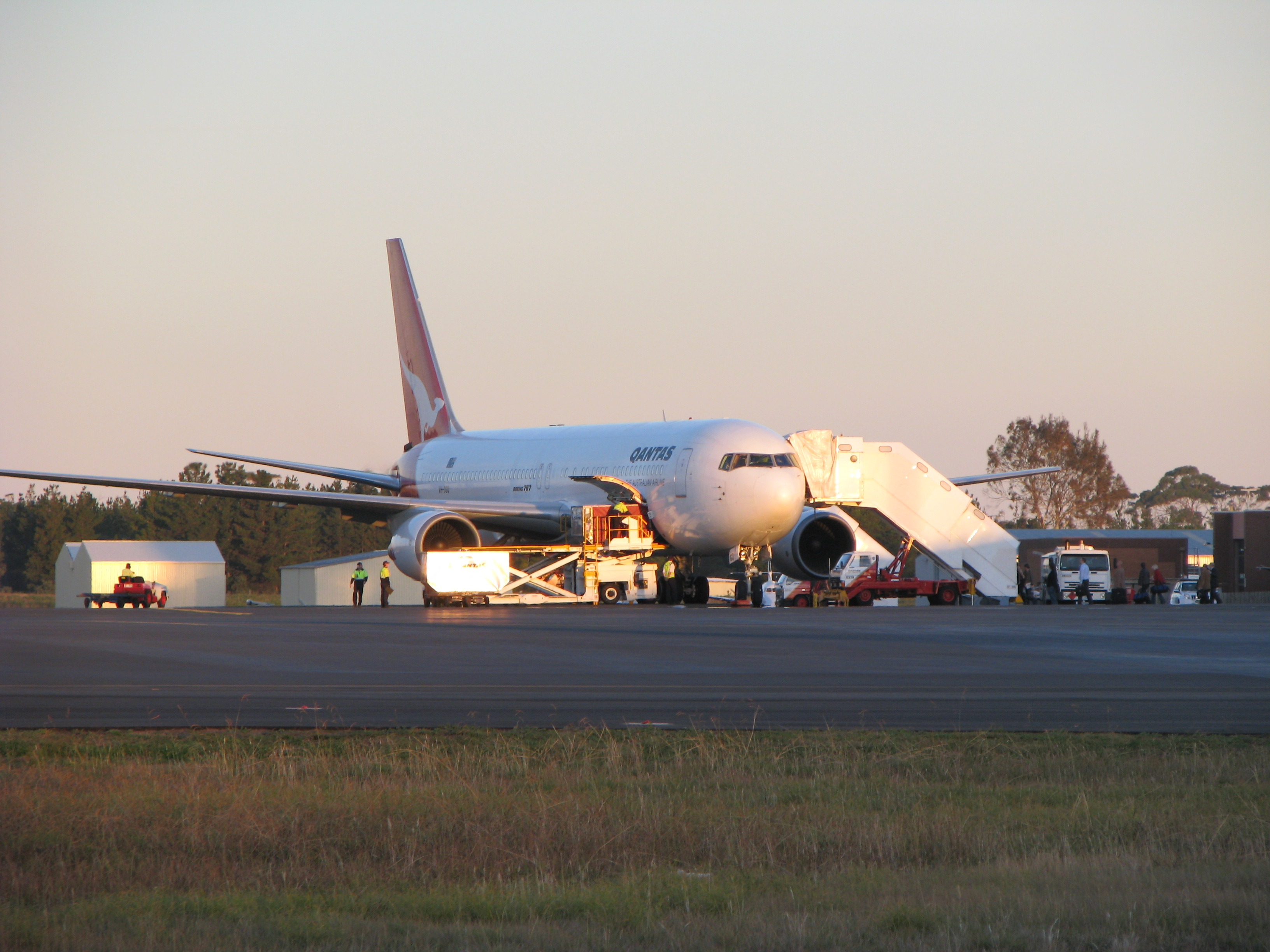 A rare visit from a Qantas Boeing 767-300 at Hobart Airport